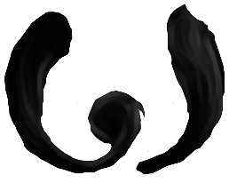 Wikitongues logo in the image format .png